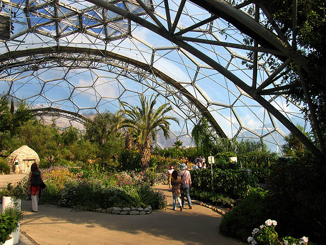 The Hot, Dry Biome: Eden Project. This biome contains plants of Southern Africa, California and other hot dry climate areas of the world.